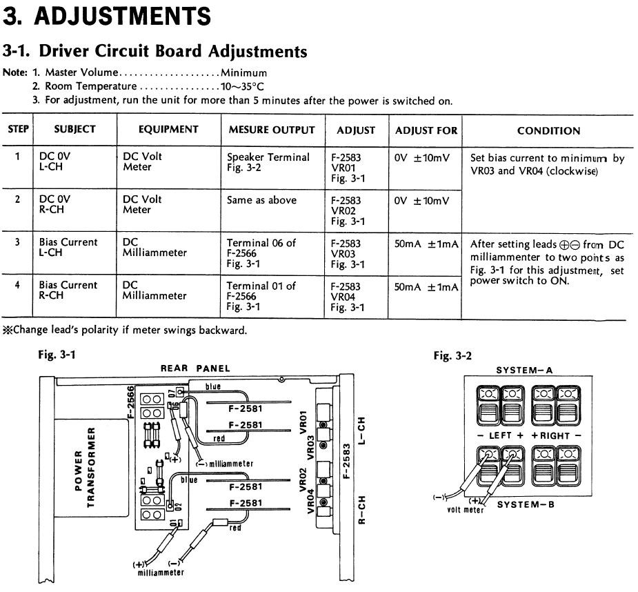 Sansui AU-11000 F-2583 DC Offset & Current Bias Adjustment Procedure as stated in the Sansui AU-11000 & AU-9900 Service Manual. [Modified by Steve Hunter]